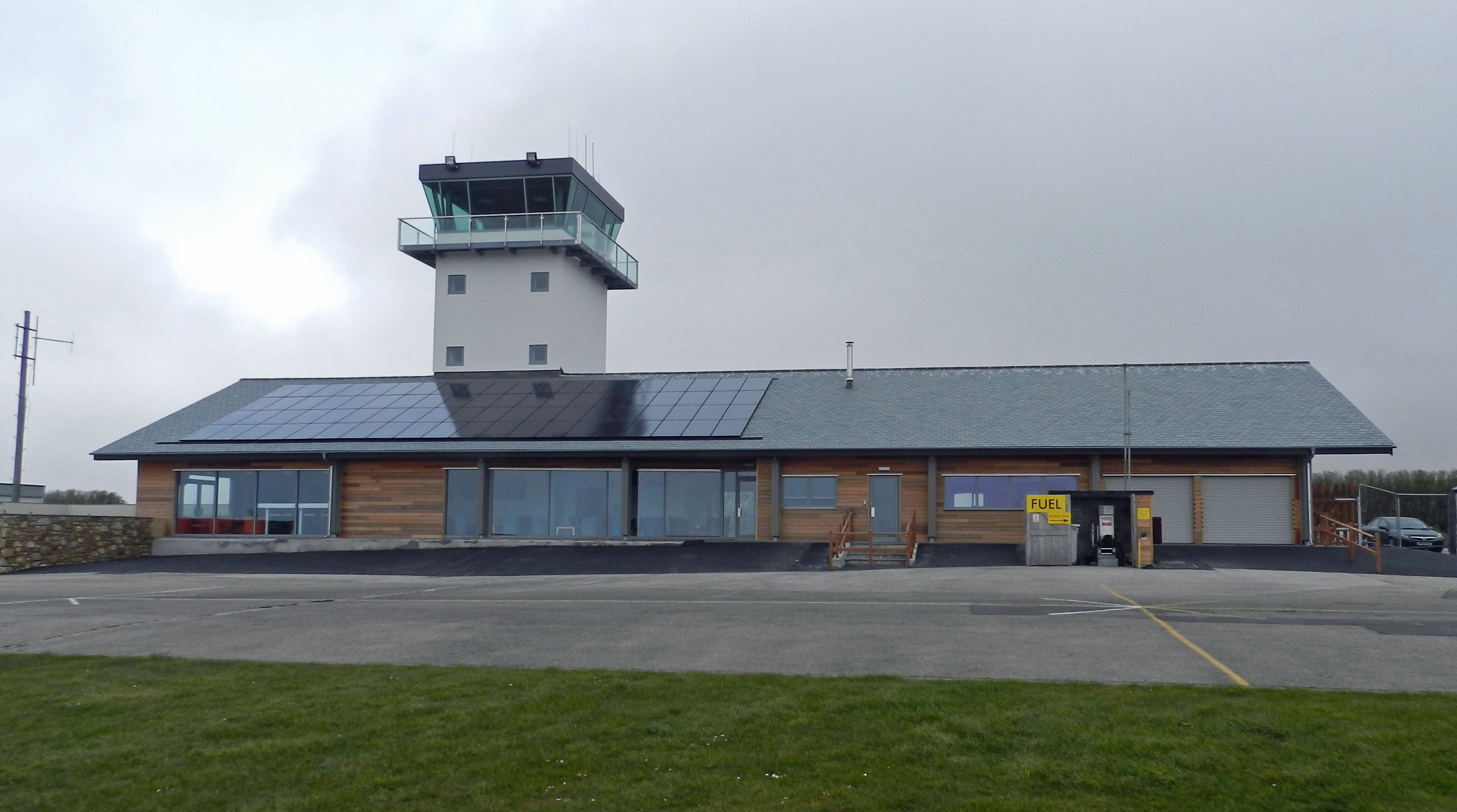 The new terminal building and control tower.